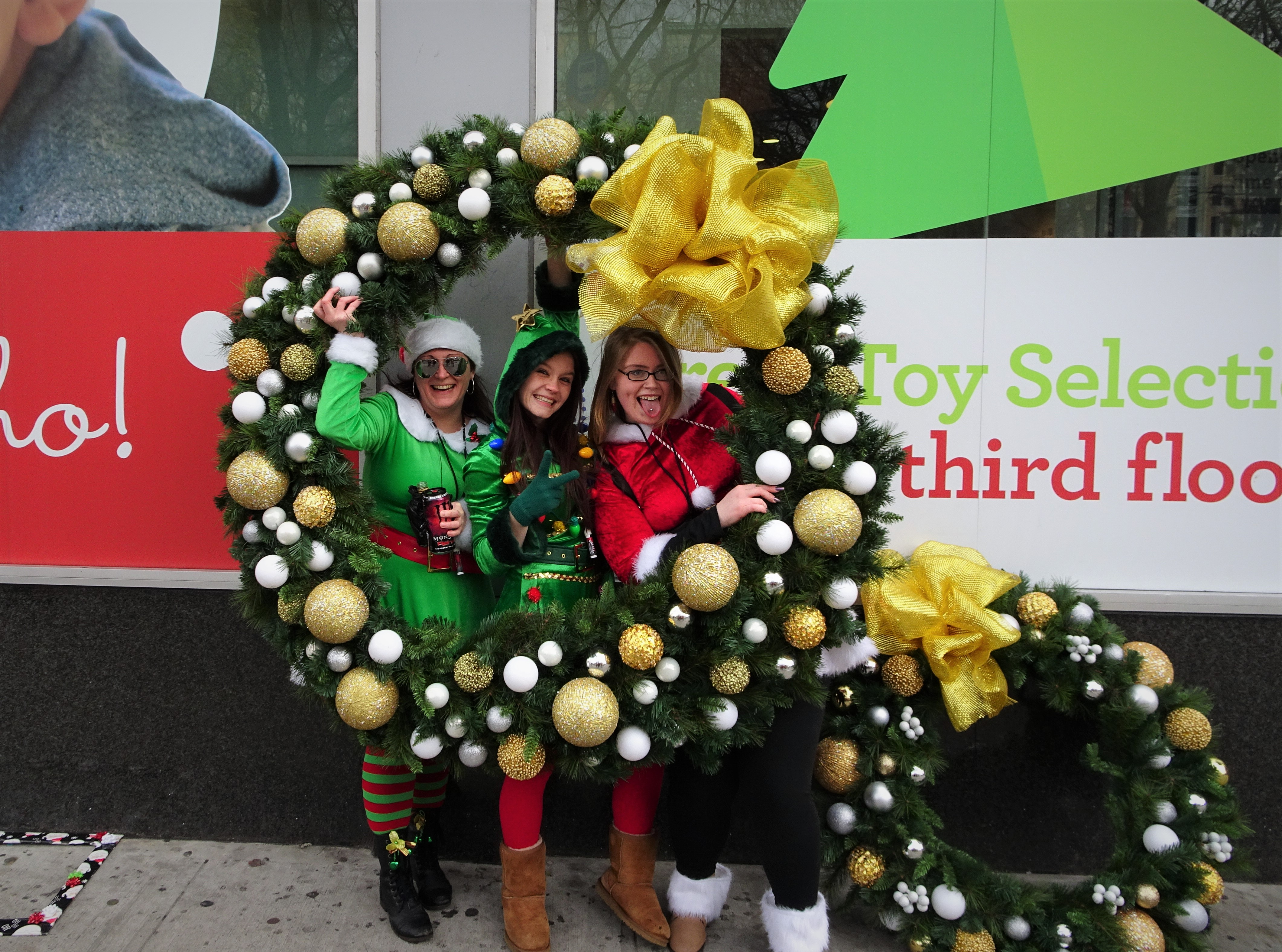 Looking east at Santacon women who found a friendly wreath salesman